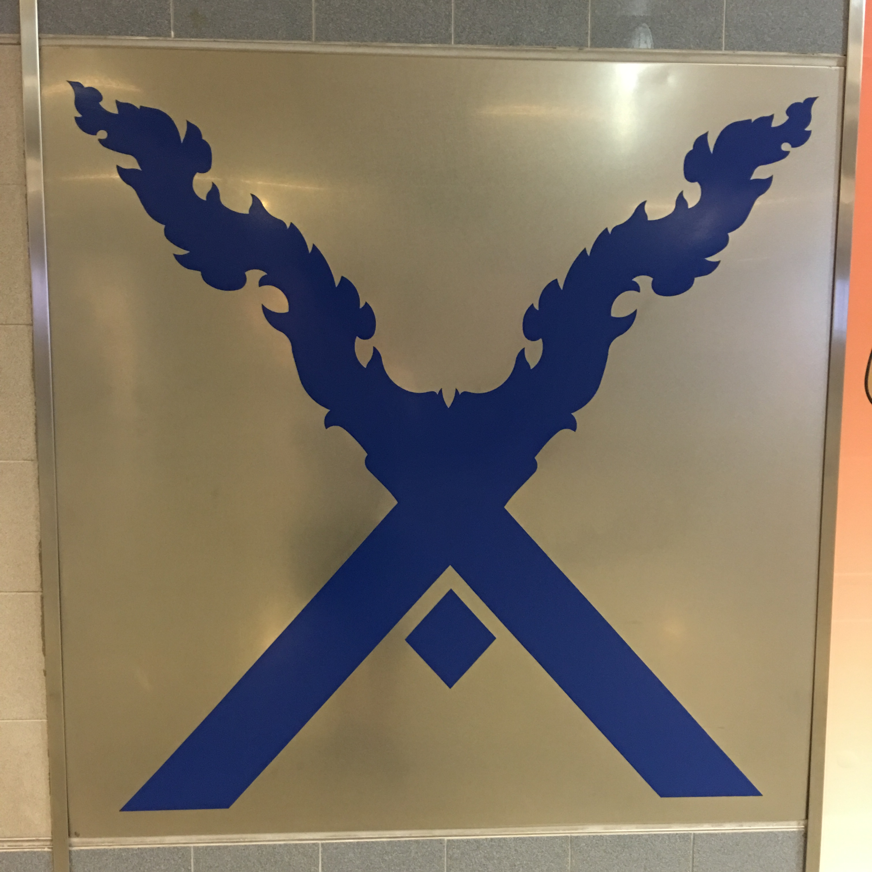 "Kalae" - the symbol of Sukhumvit Station